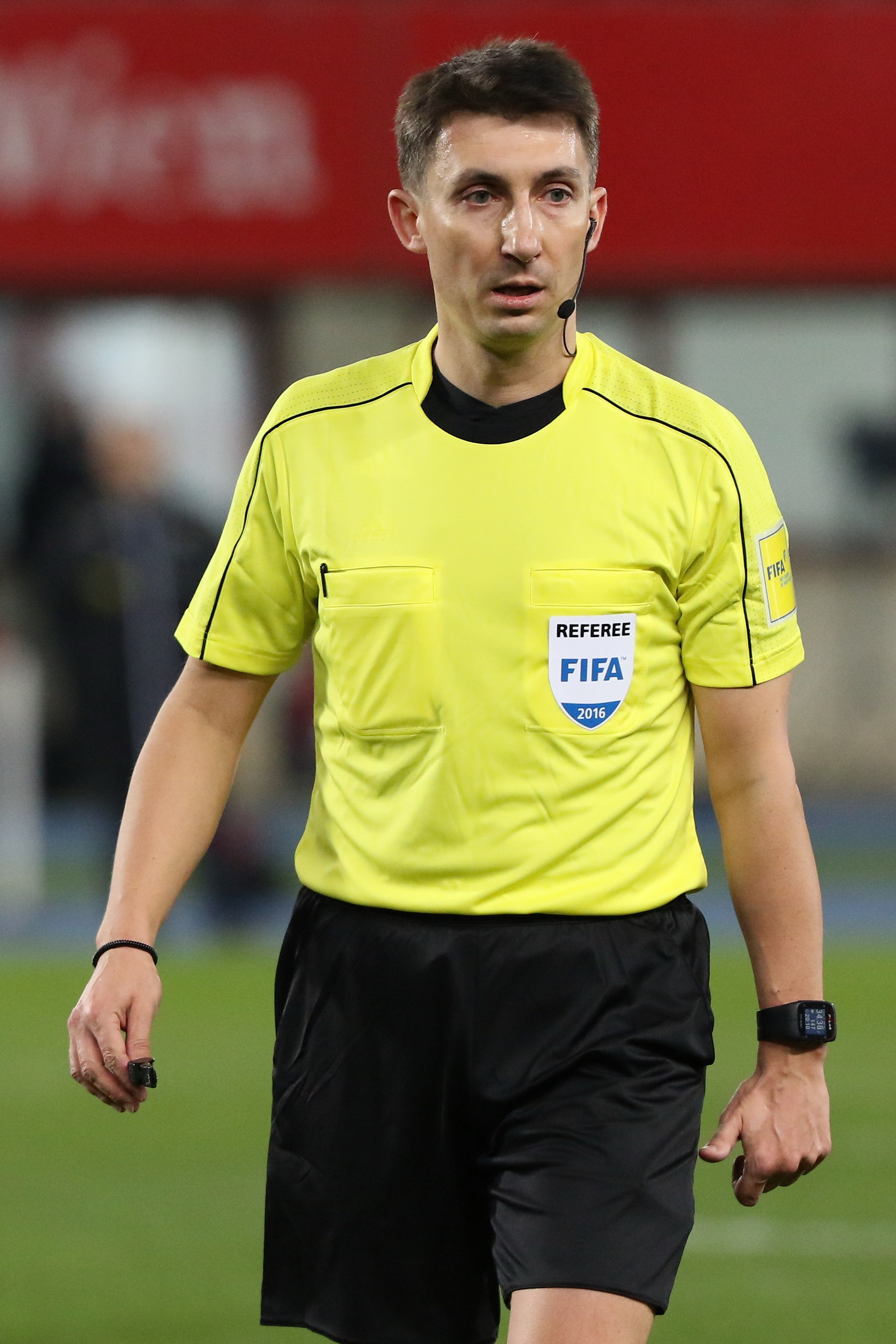 Friendly match – Austria (red shirts) vs. Turkey (blue shirts) 1–2 (1–1) on 2016-03-29 in Ernst-Happel-Stadion, Vienna – The photo shows referee Pawel Gil (Poland).